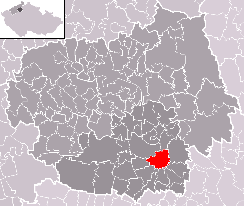 Location of Krabčice municipality within Litoměřice District and administrative area of Roudnice nad Labem as a Municipality with Extended Competence.